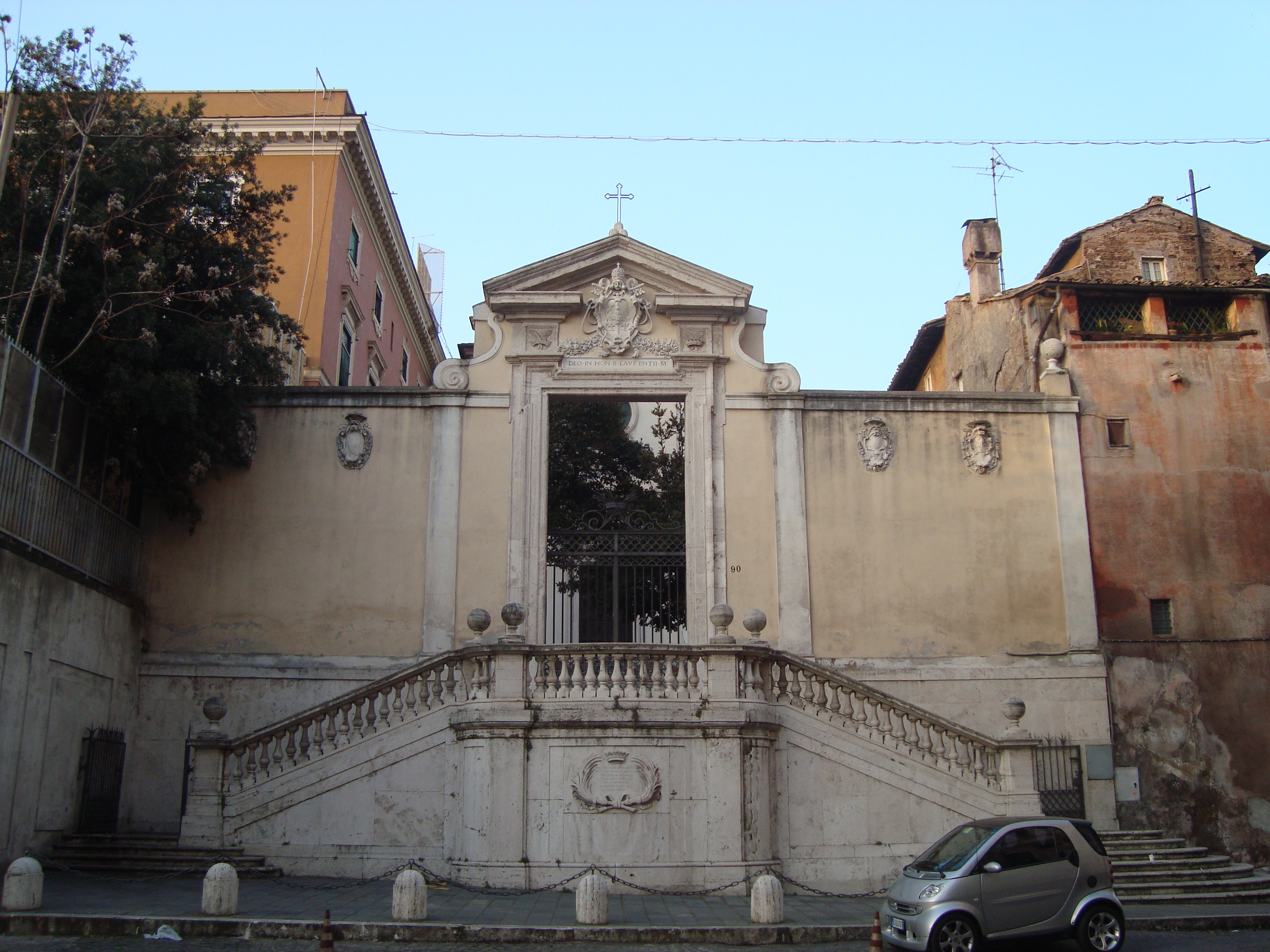 The portico of the church San Lorenzo in Panisperna in Rome